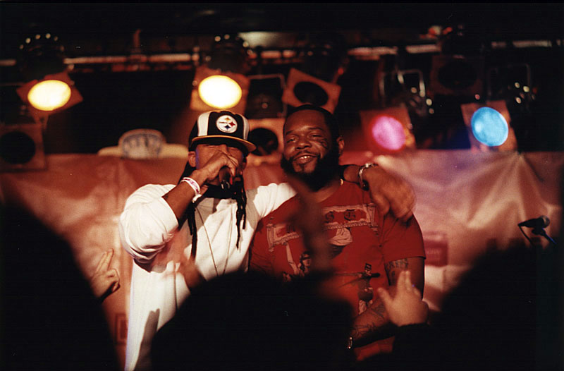 Smif-n-Wessun in concert.